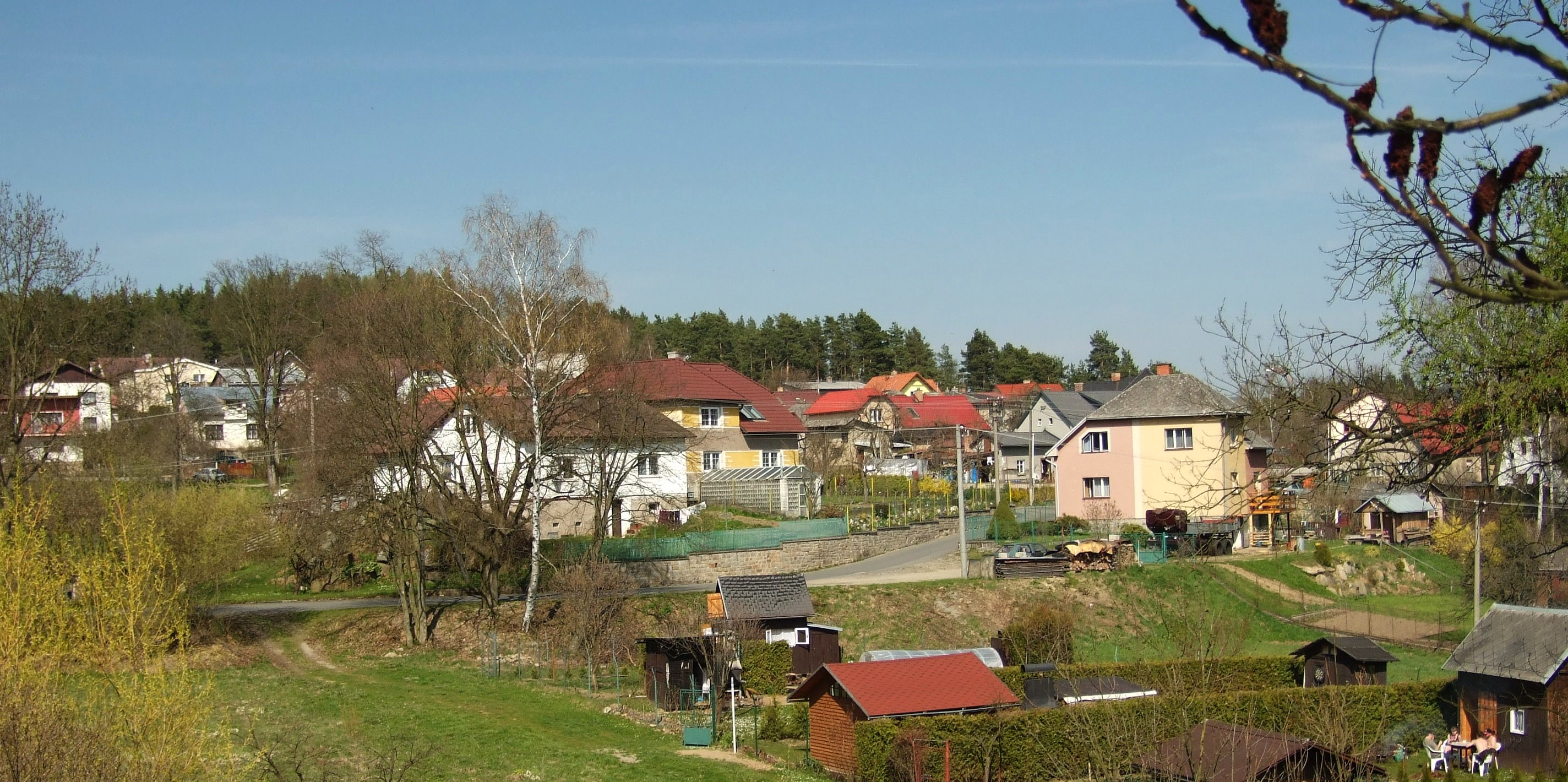 Světlá nad Sázavou-Dolní Březinka, Vysočina Region, CZ